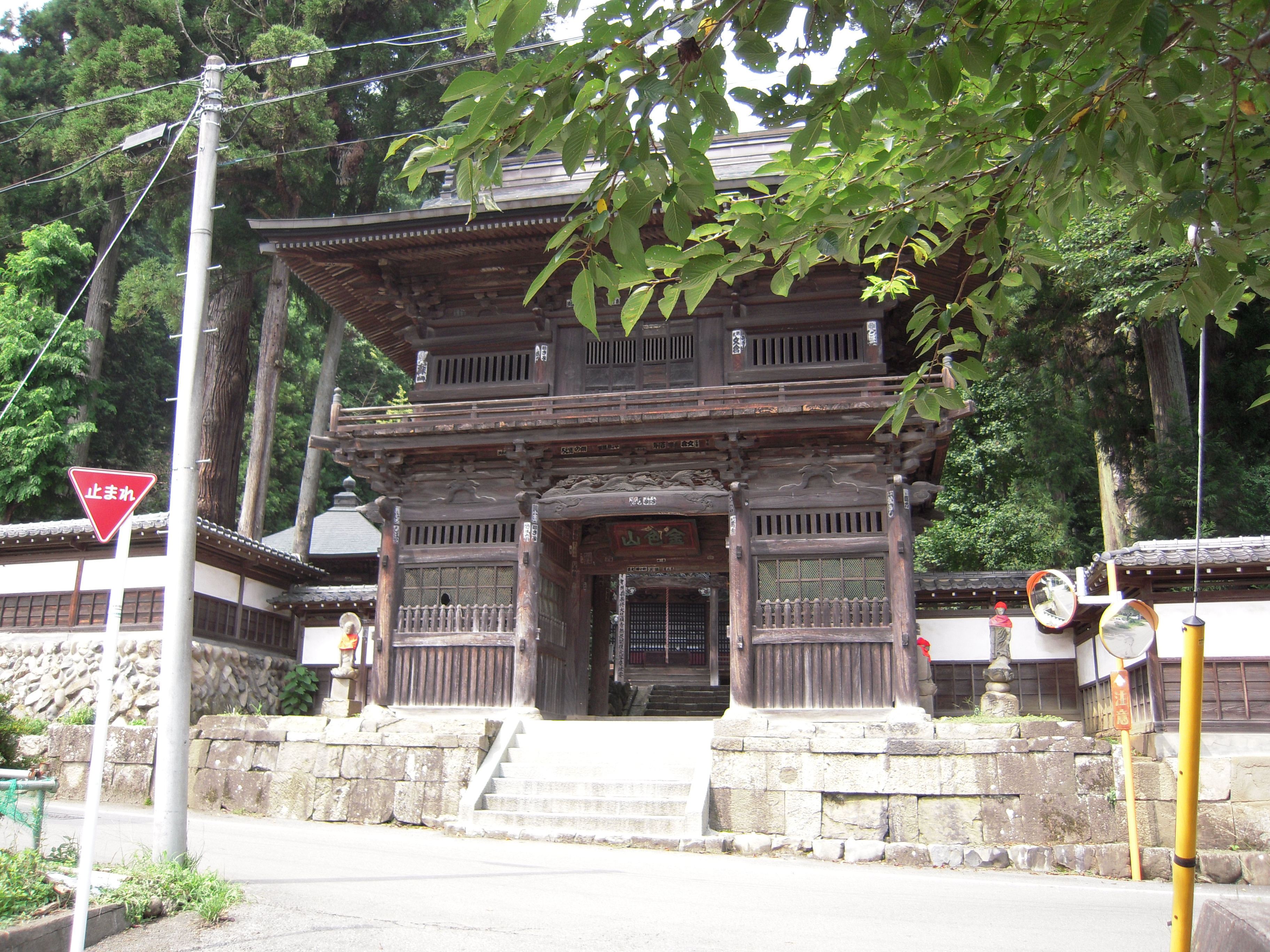 Daihiganji Sanmon, Akiruno